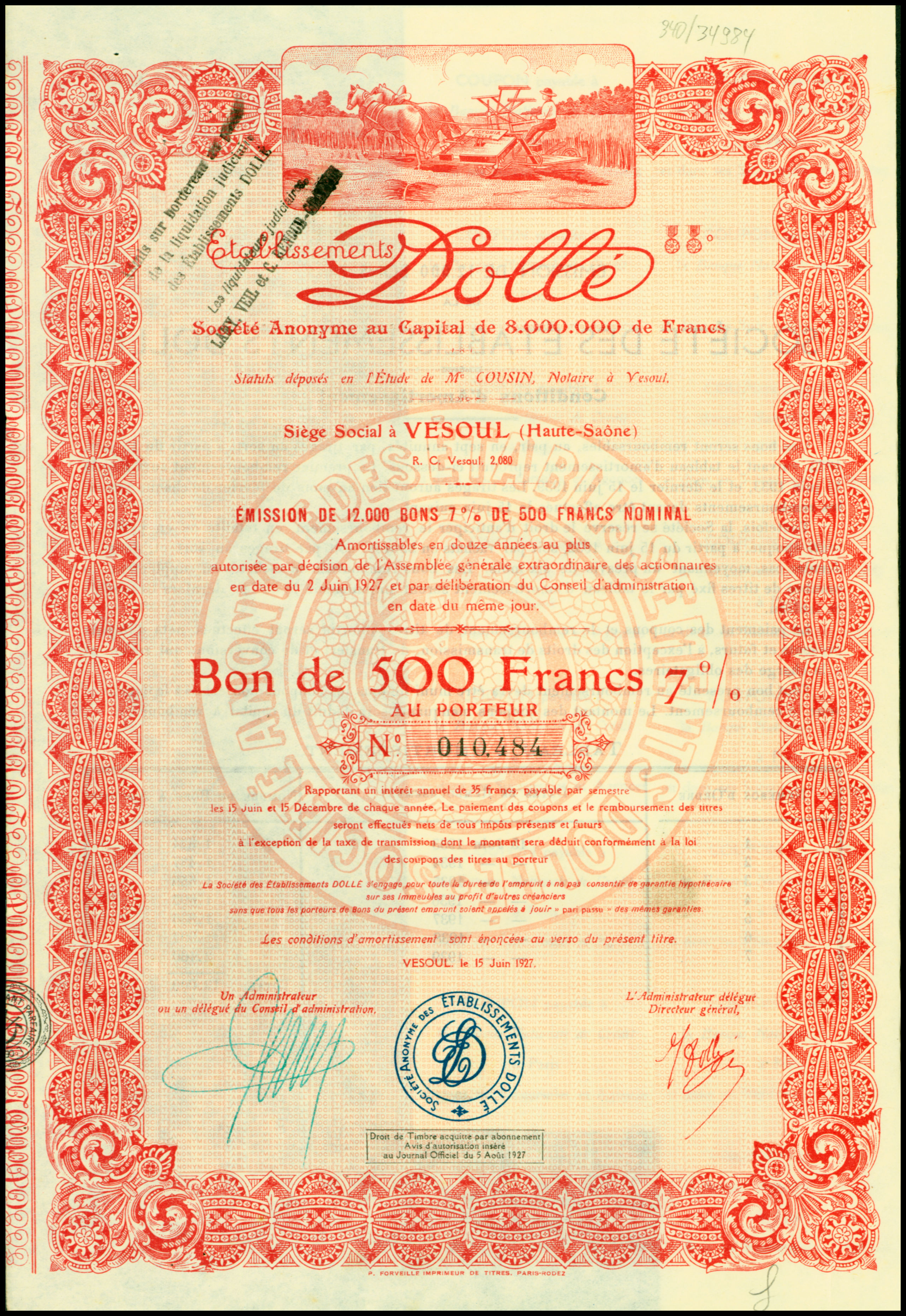 Bon of the Etablissements Dollé, issued 15. June 1927